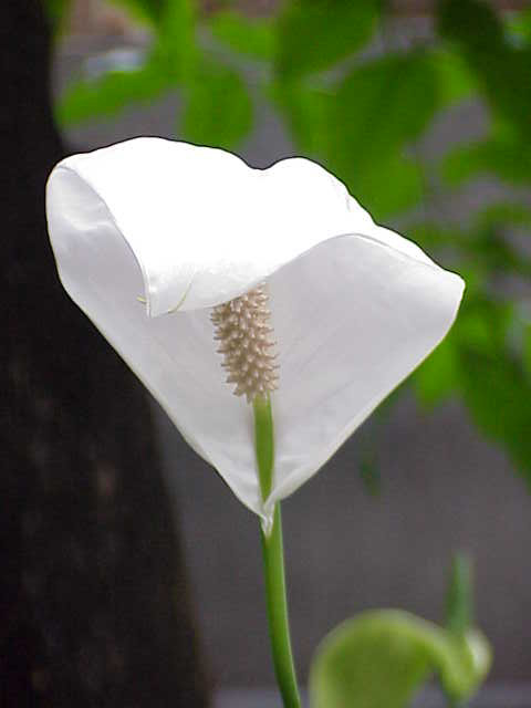 Species: Spathuphyllum cochlearispathum Family: Araceae Image No. 1